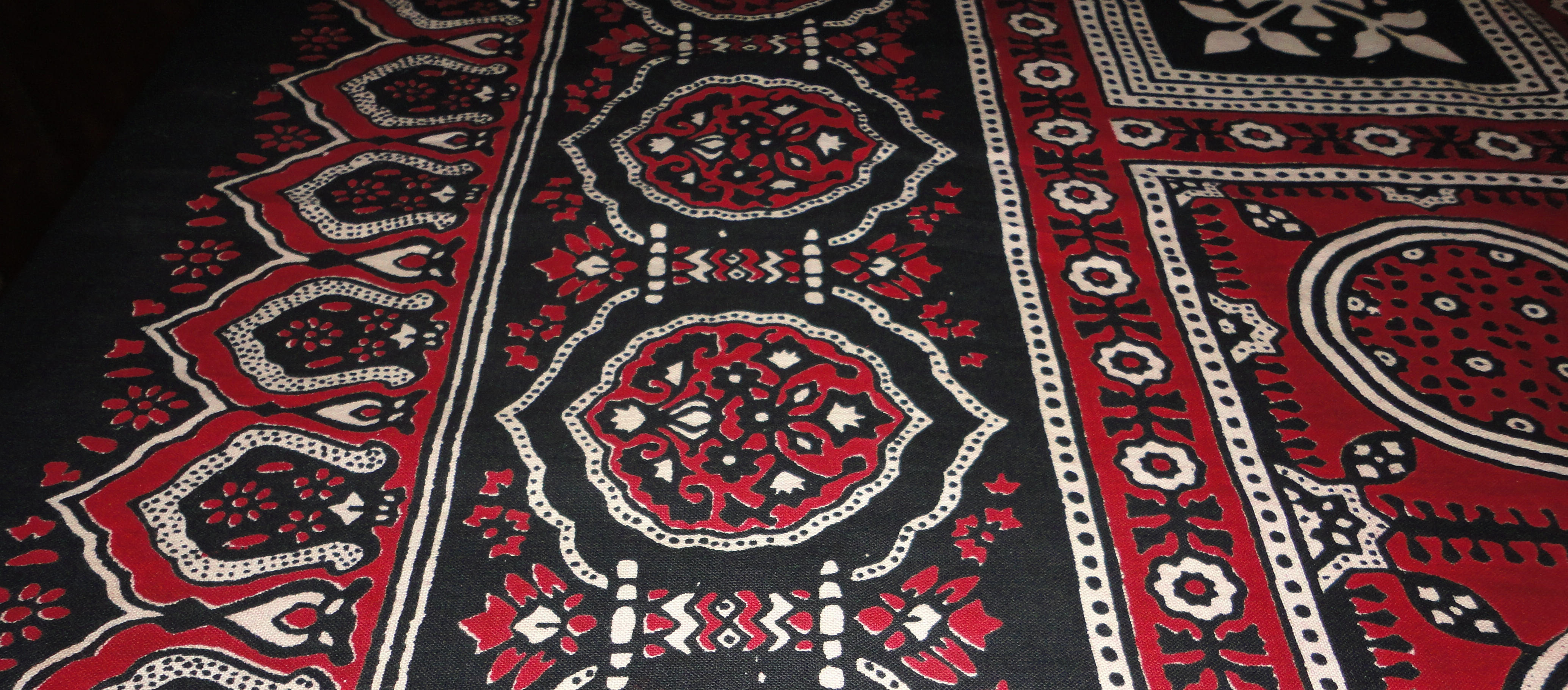 Ajrak Ajrak (Sindhi: اجرڪ) is a name given to a unique form of blockprinted shawls and tiles found in Sindh, Pakistan. Ajraks are also worn by the Seraiki people of Southern Punjab and Kutch. These shawls display special designs and patterns made using block printing by stamps. Common colours used while making these patterns may include but are not limited to blue, red, black, yellow and green. Over the years, ajraks have become a symbol of the Sindhi culture and traditions. Early human settlements in the region which is now the province Sindh in Pakistan along the Indus River had found a way of cultivating and using Gossypium arboreum commonly known as tree cotton to make clothes for themselves. These civilizations are thought to have mastered the art of making cotton fabrics as early as 3000 BC.[1] A bust of a king priest excavated at Mohenjo-daro shows him draped over one shoulder in a piece of cloth that resembles an ajrak. What came as a formidable explanation for this observation was the trefoil pattern etched on the person's garment interspersed with small circles, the interiors of which were filled with a red pigment. Excavations elsewhere in the Old World around Mesopotamia have yielded similar patterns appearing on various objects most notably on the royal couch of Tutankhamen. This symbol illustrates what is now believed to be an edifice depicting the fusion of the three sun-disks of the gods of the sun, water and the earth. Reminiscent geometry of the trefoil is evident on most of the recent ajrak prints.